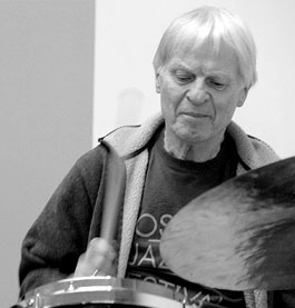 Alex Riel, jazz drummer